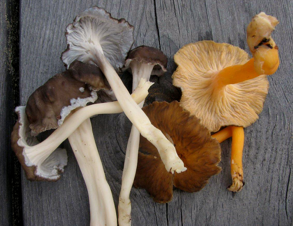 Cantharellus lutescens Location: Gotland, Sweden For more information about this, see the observation page at Mushroom Observer.